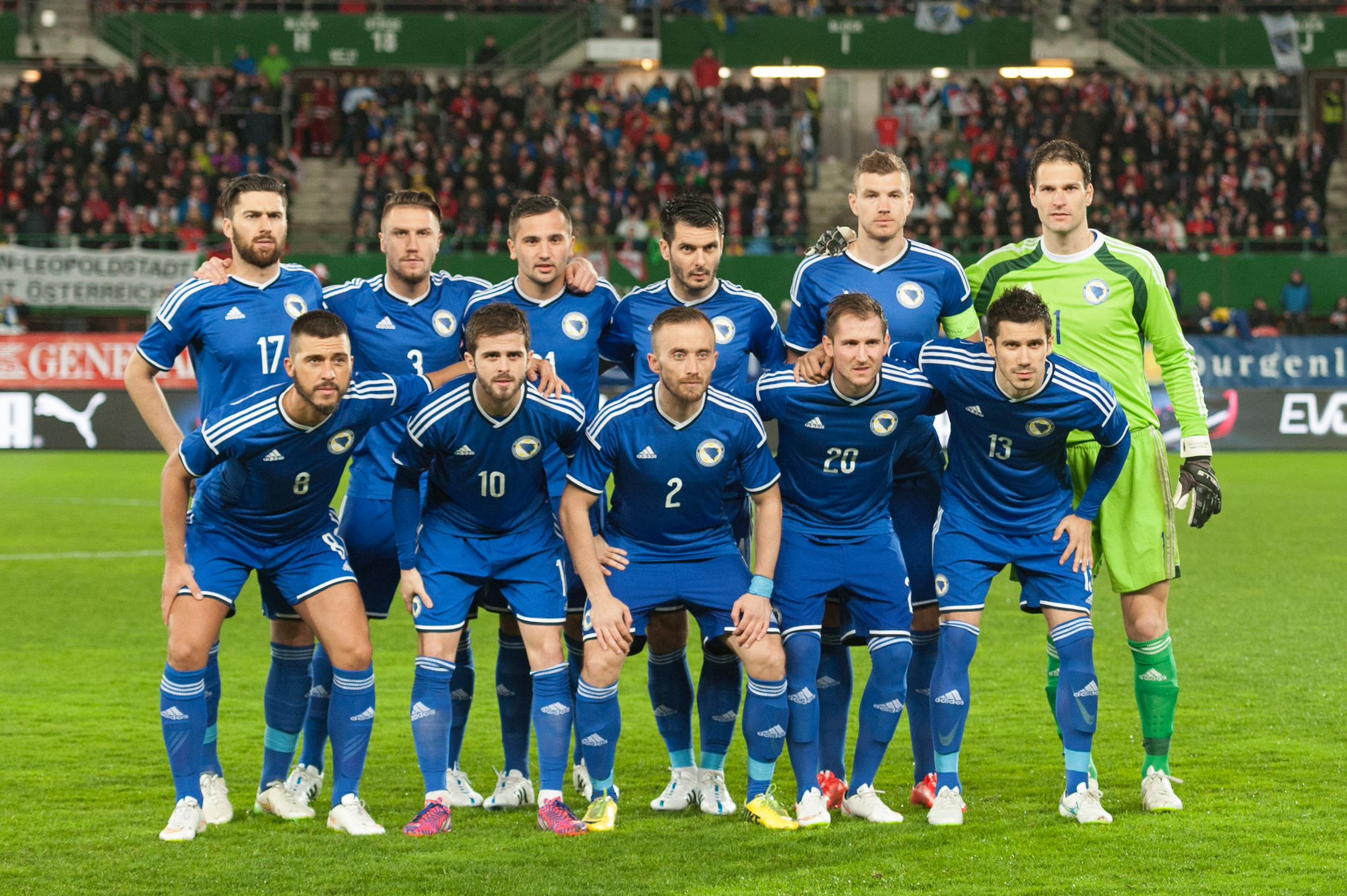 International friendly Austria vs. Bosnia and Herzegovina, 2015-03-31, Vienna